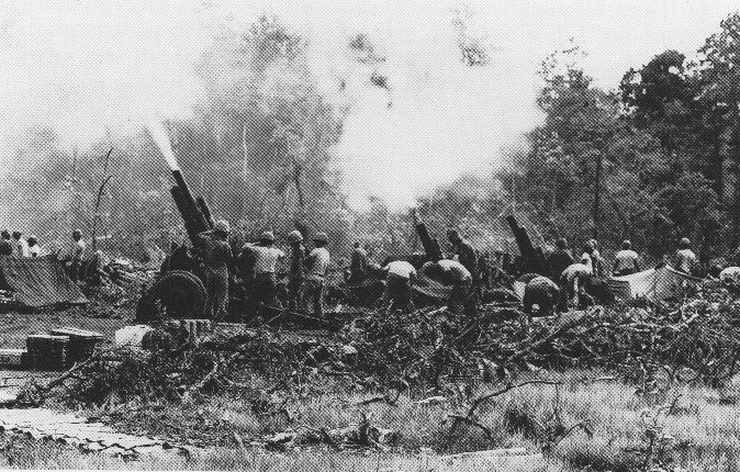 A battery of 105 mm howitzers uses high-angle fire in the western highlands during the Battle of Dak To.